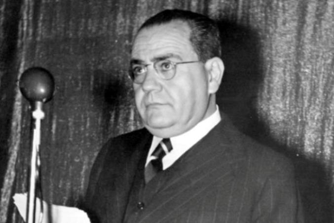 The goverment of the Spanish Republic decreed to Barcelona as the capital of the country, from November of 1937 until 26 January of 1939, in the Spainsh Civil War. In the image the Republican president Juan Negrín during a radial speech the 26 February of 1938 in Barcelona.